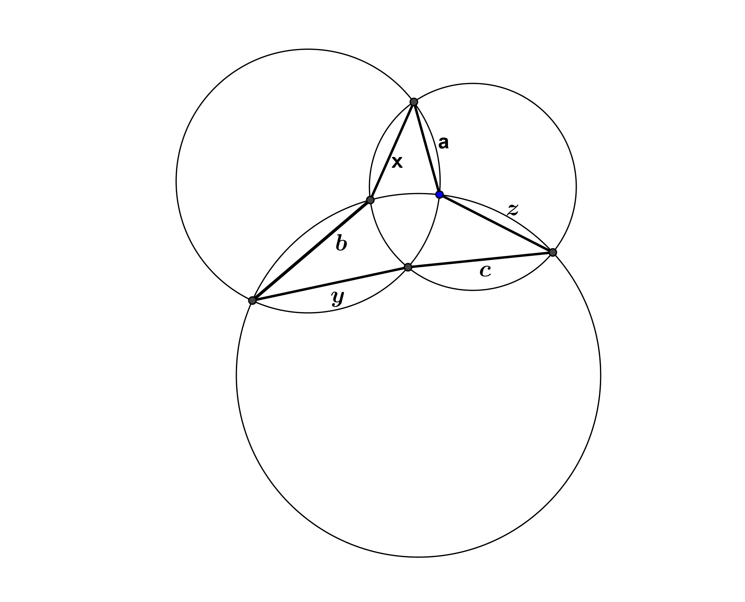 Illustration for Haruki's Theorem made in geogebra